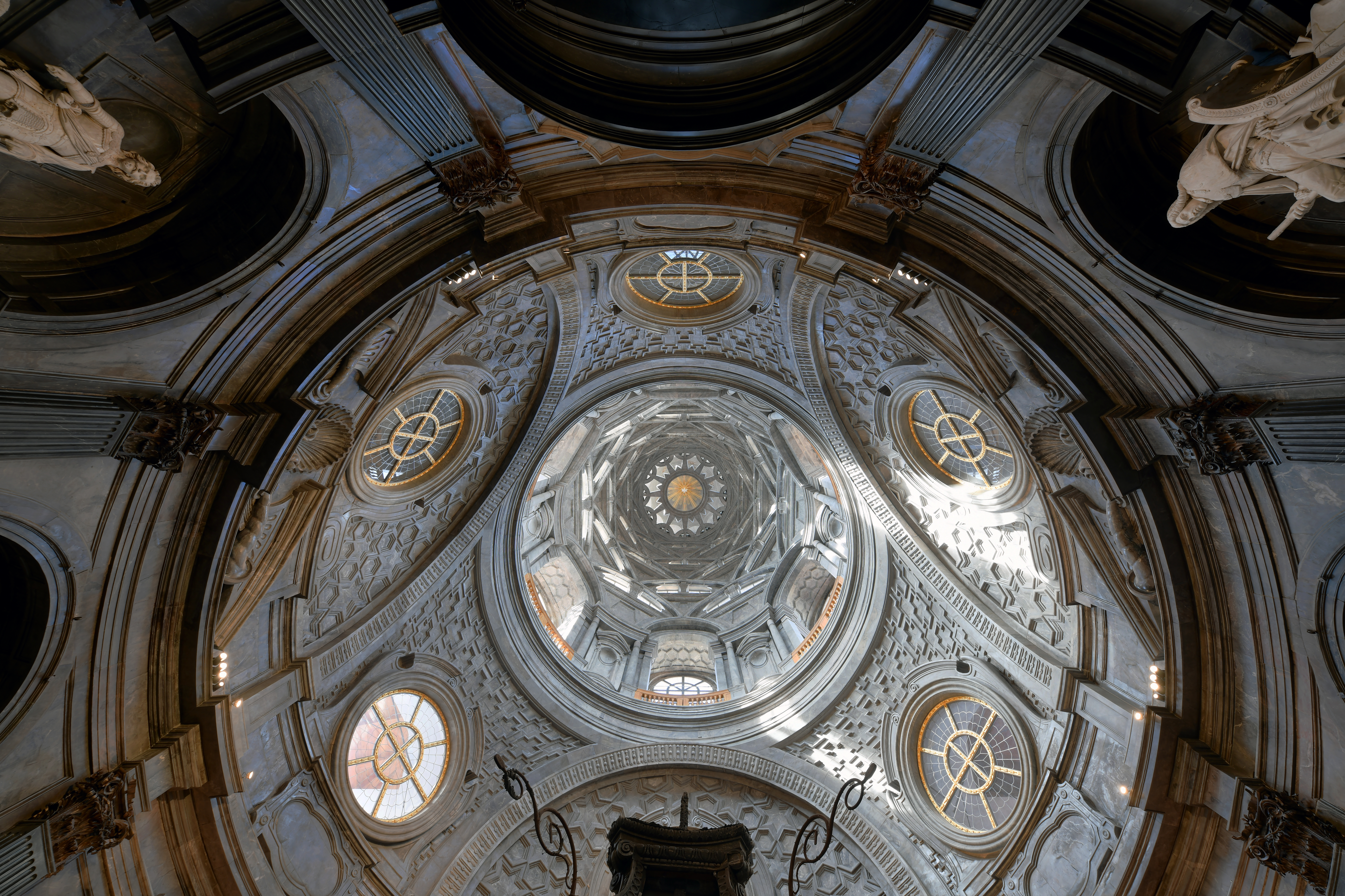 Duomo (Turin) - Dome